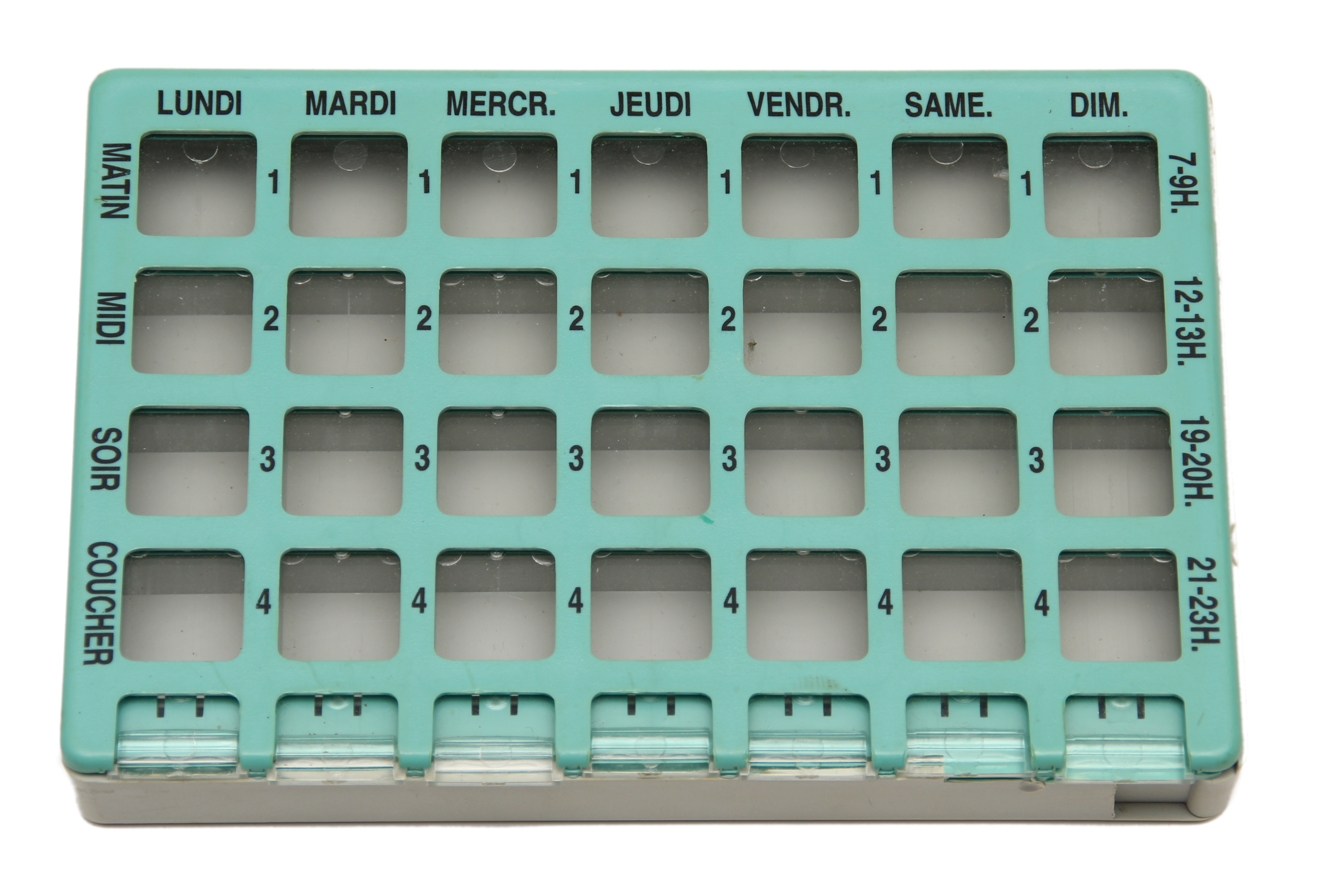 A pillbox, or pill organizer, in french.